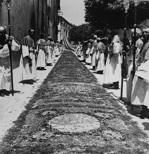 Historical infiorata of Spello